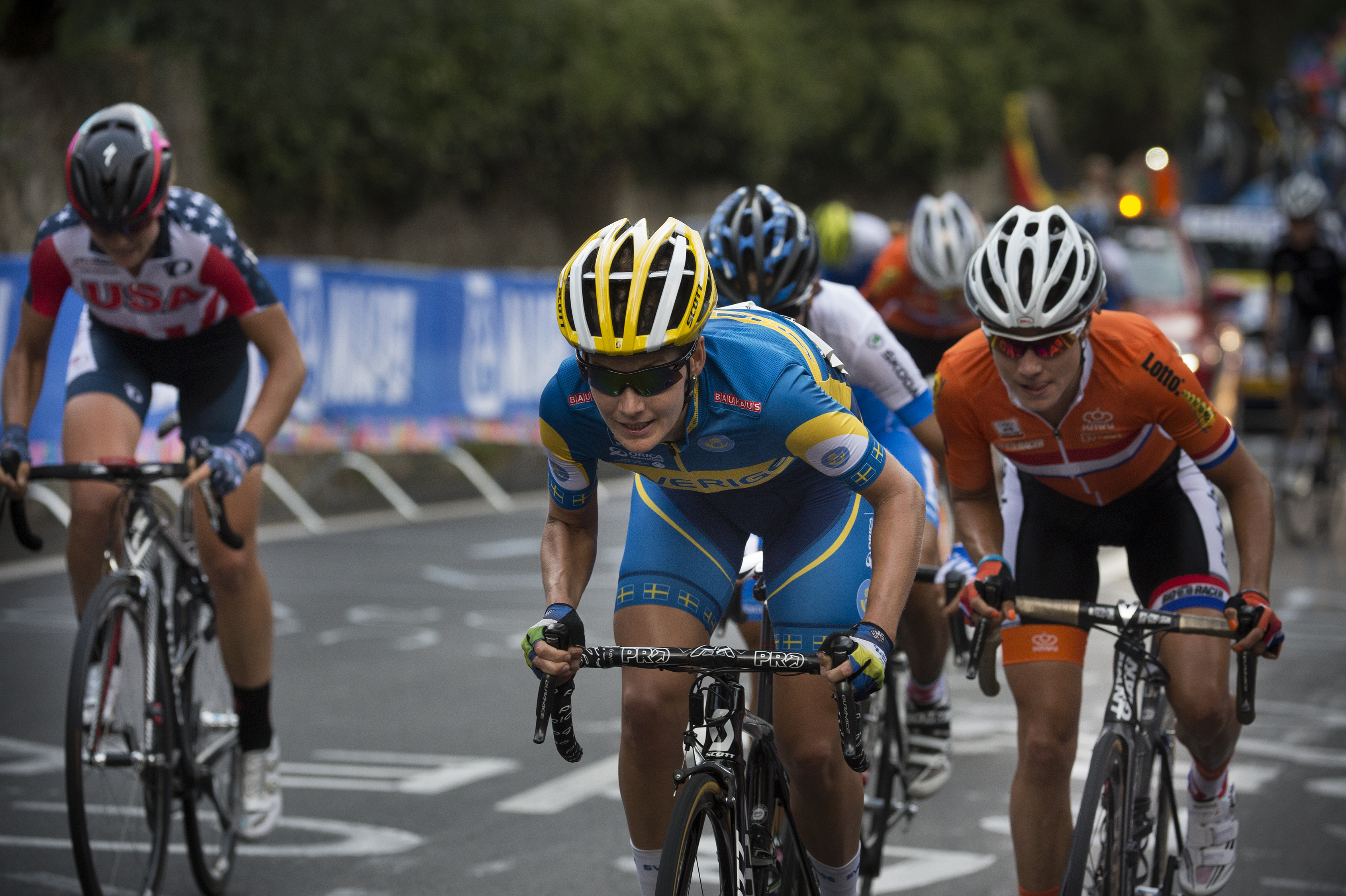 Emma Johansson of Sweden during the Women's road race at the 2013 UCI World Championships in Tuscany, Italy.